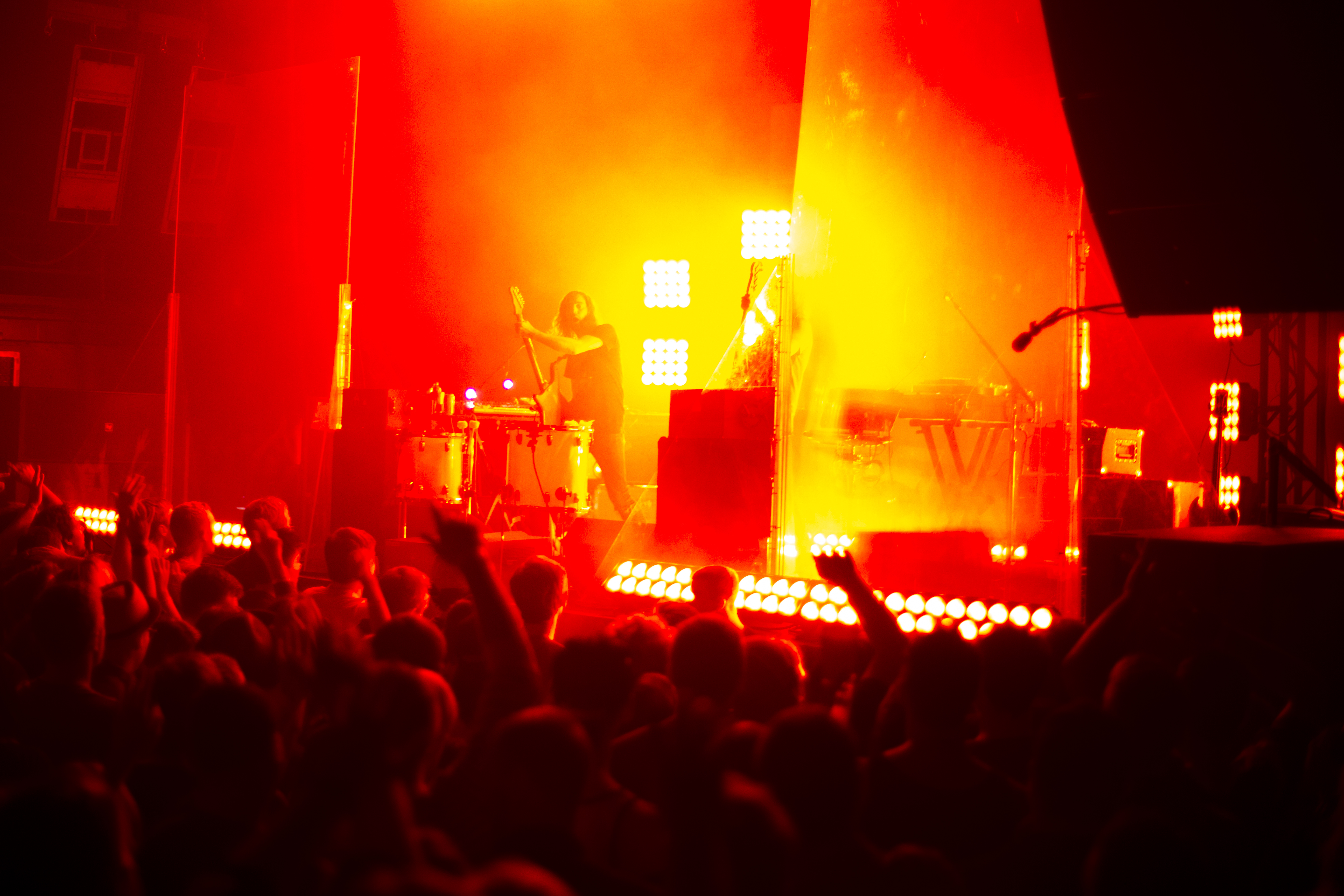 Ratatat performing at the historic First Ave in Minneapolis, MN